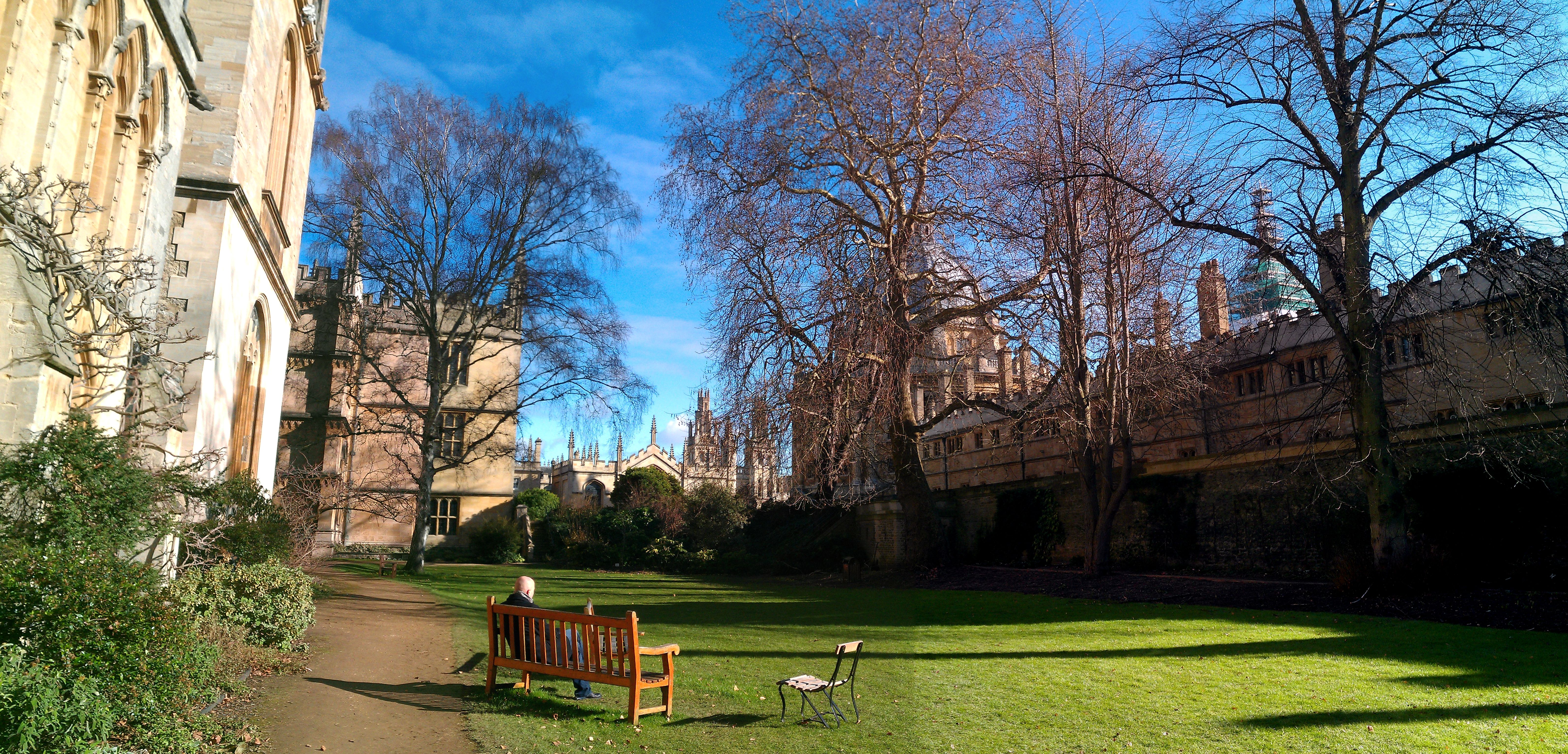 A composite photo taken from the Fellows' Garden of Exeter College, Oxford.